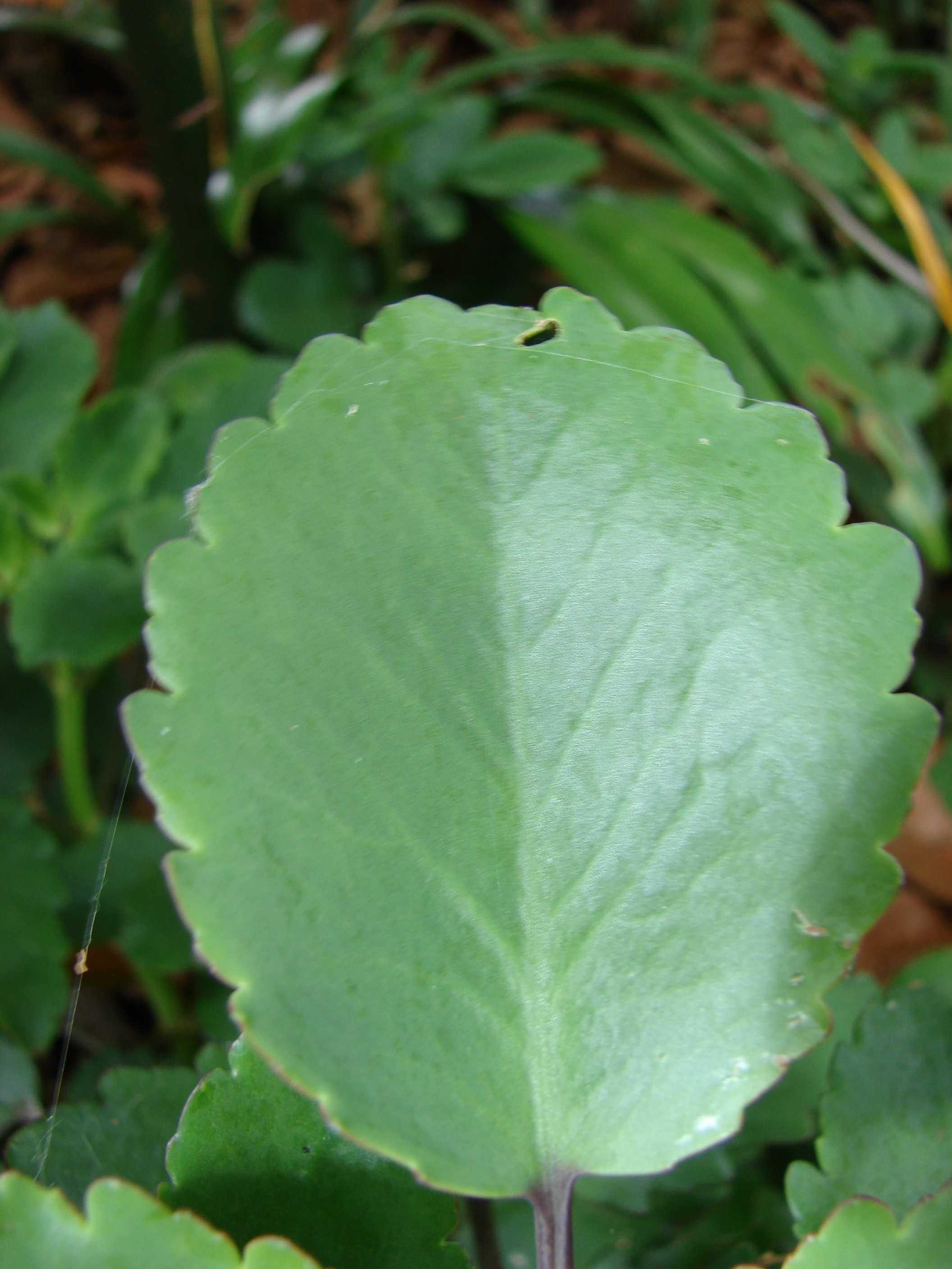 Kalanchoe pinnata (leaf). Location: Maui, Makawao